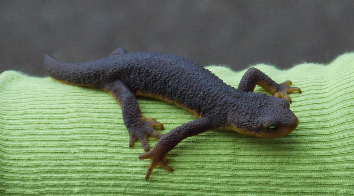 California newt